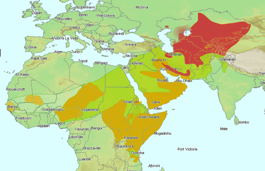 Distribution Map of Red-tailed Shrike (Lanius phoenicuroides)